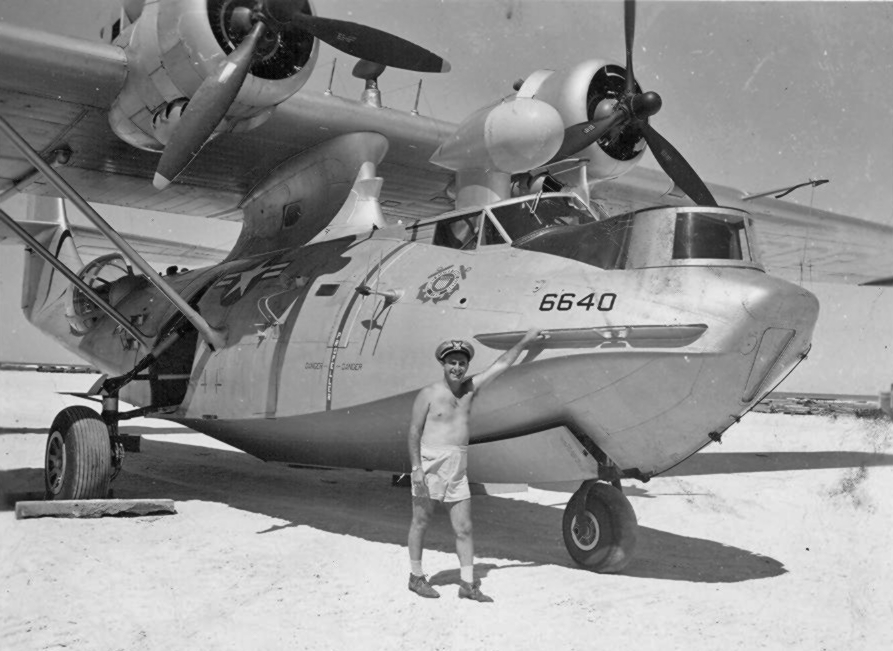 Dave Gershowitz, U.S. Coast Guard, pictured in front of a Consolidated PBY-5A Catalina during a visit to the LORAN station on the French Frigate Shoals, 1953.